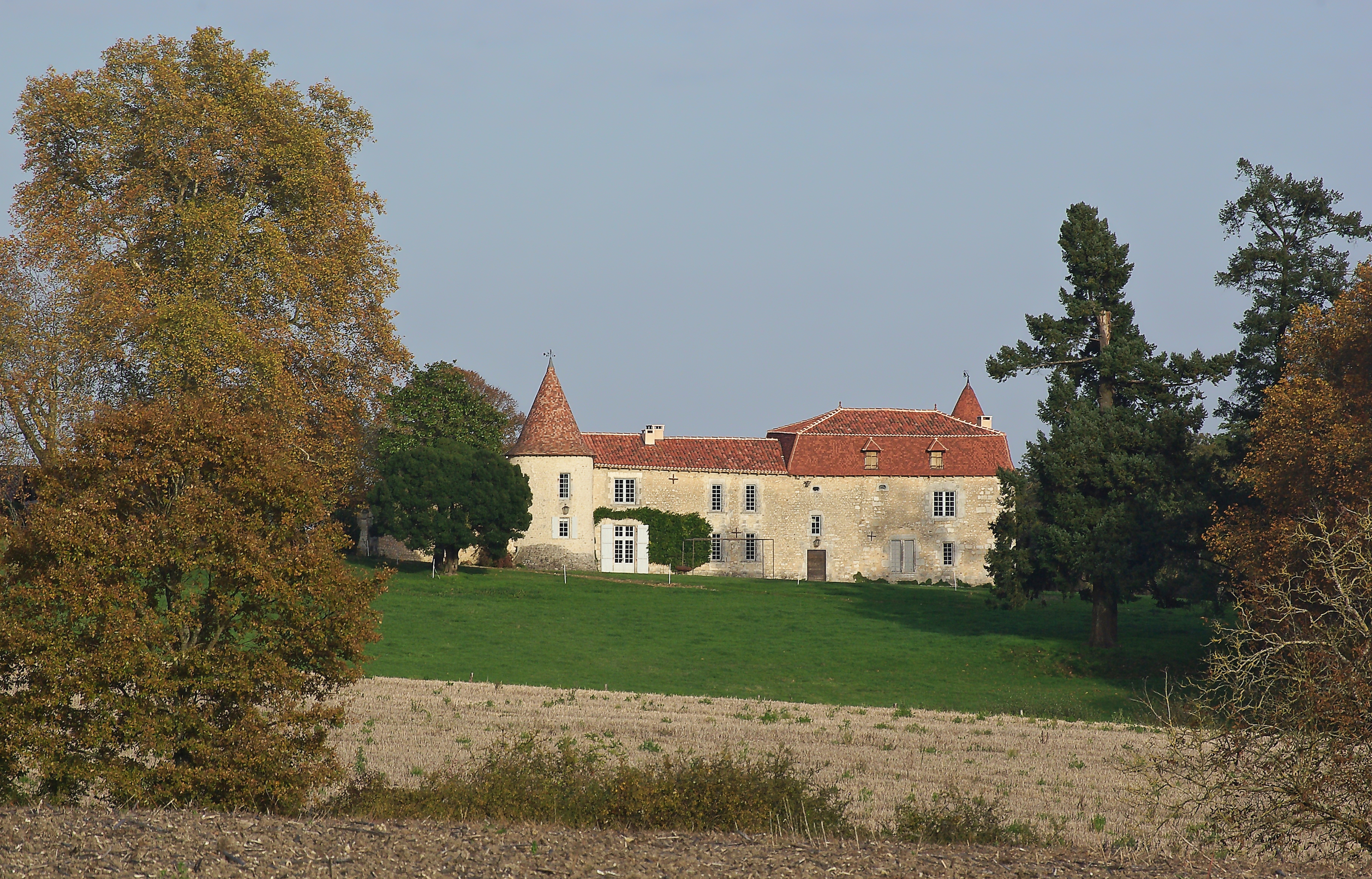 Castle of Lerse (15th and 16th centuries), seen from road D10, Pérignac, Charente, France.